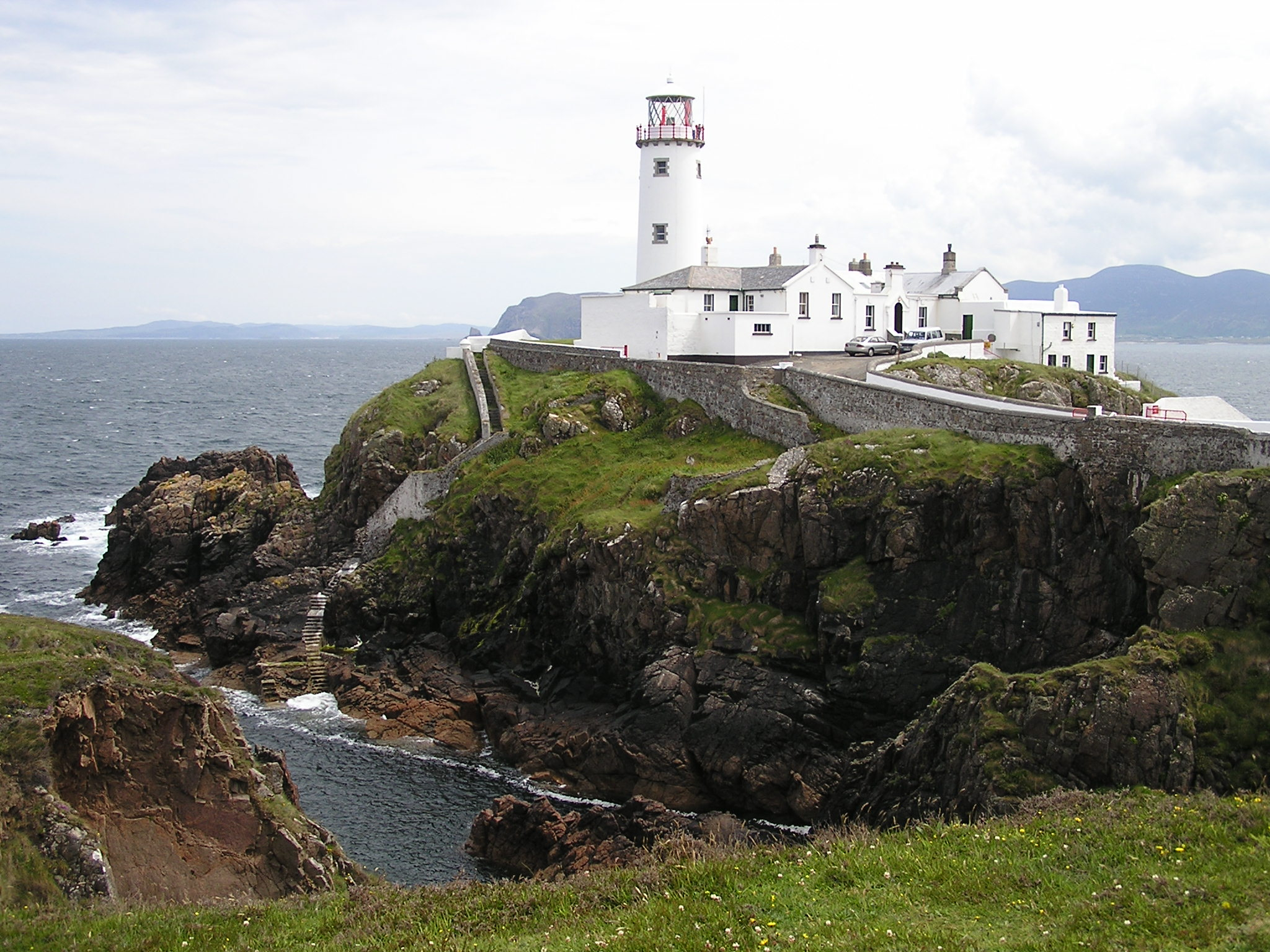 Farad lighthouse, County Donegal, Ireland